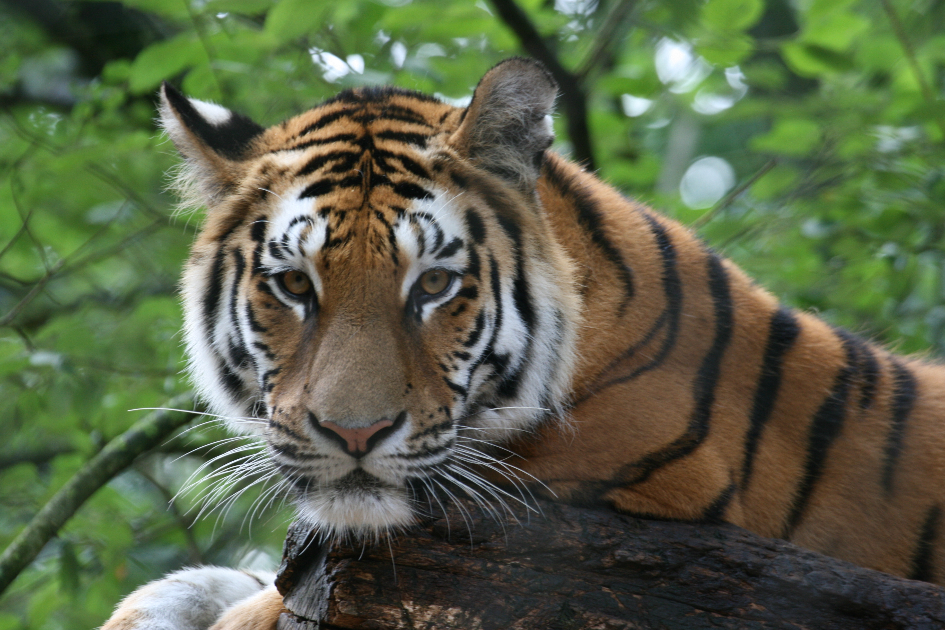 Siberian tiger Amneville Zoo